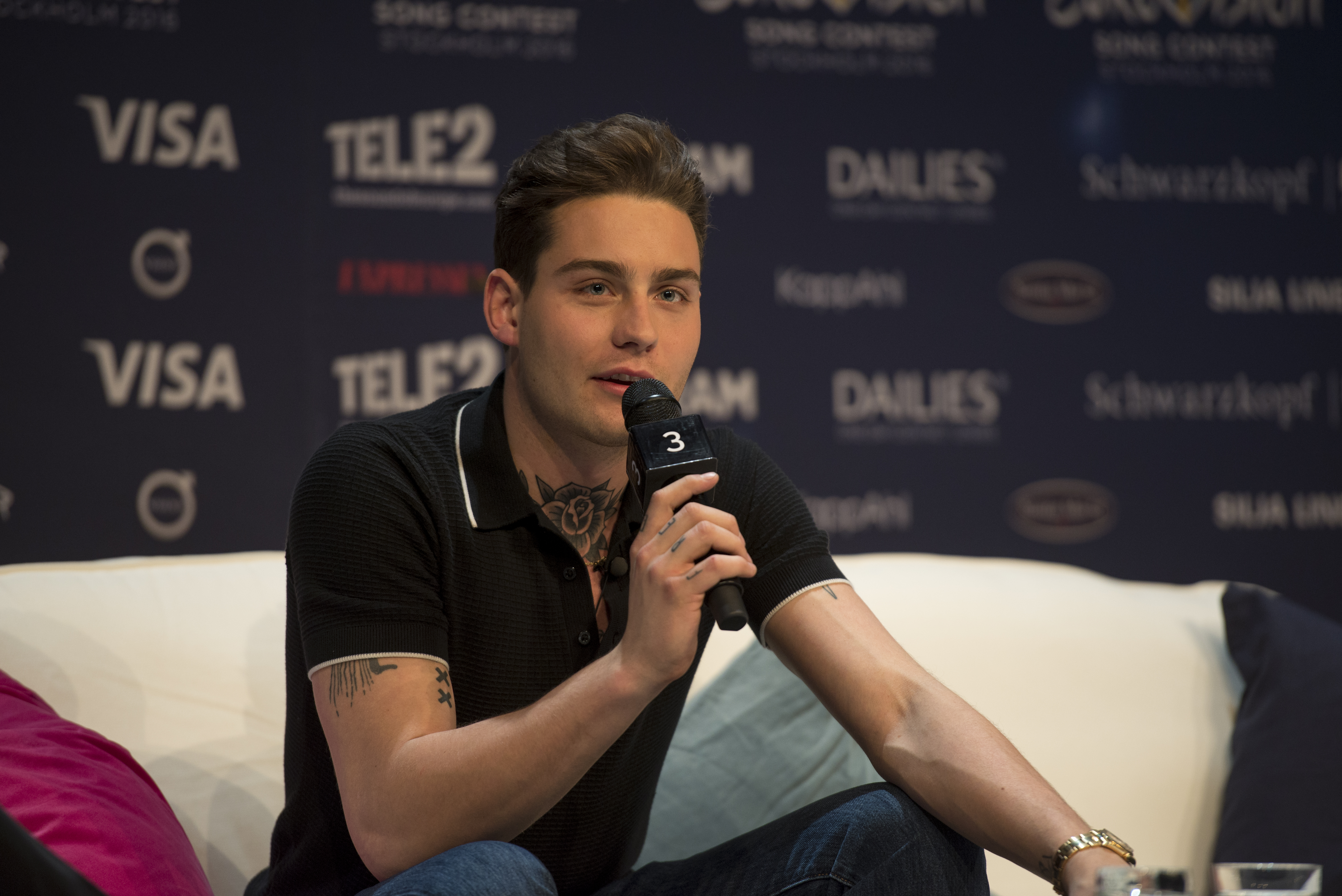 Douwe Bob at a Meet & Greet during the Eurovision Song Contest 2016 in Stockholm. (Help translate this text)